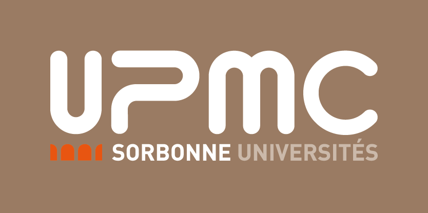 UPMC - Sorbonne University Logo